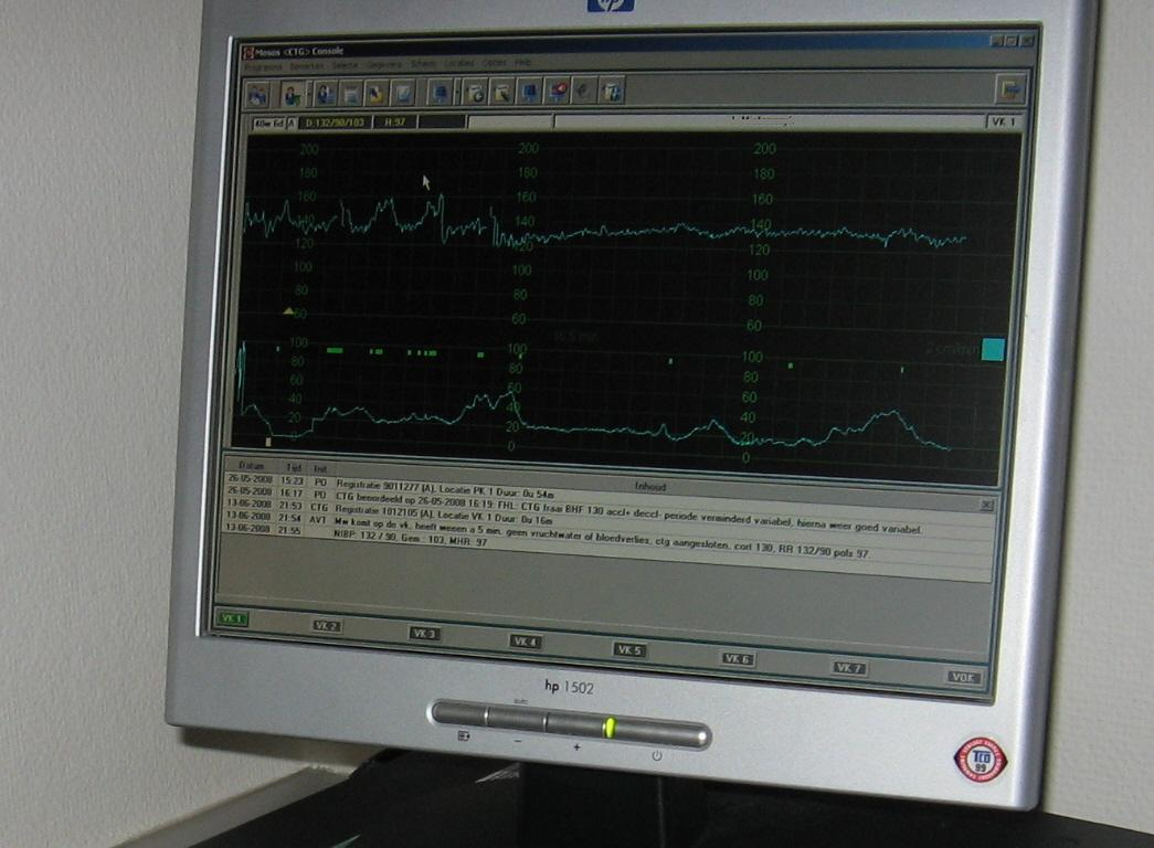 fetal monitor (result on screen)